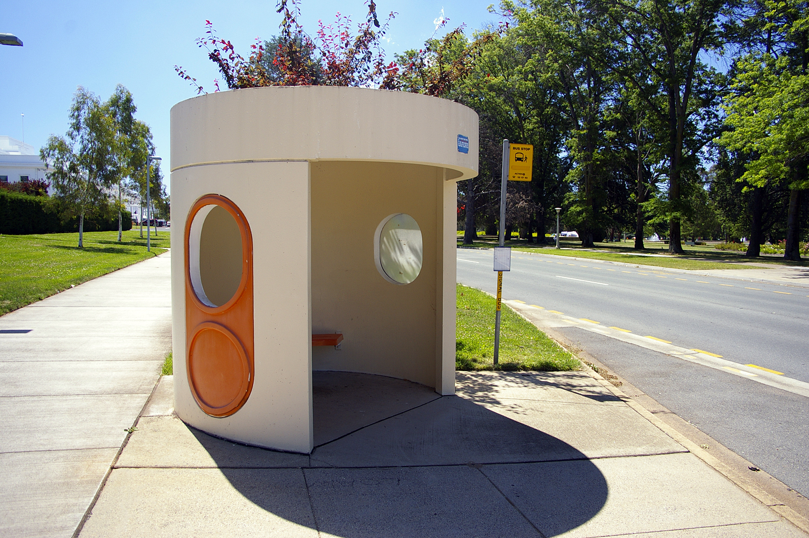 ACTION bus shelter near the Old Parliament House in Parkes, Australian Capital Territory.